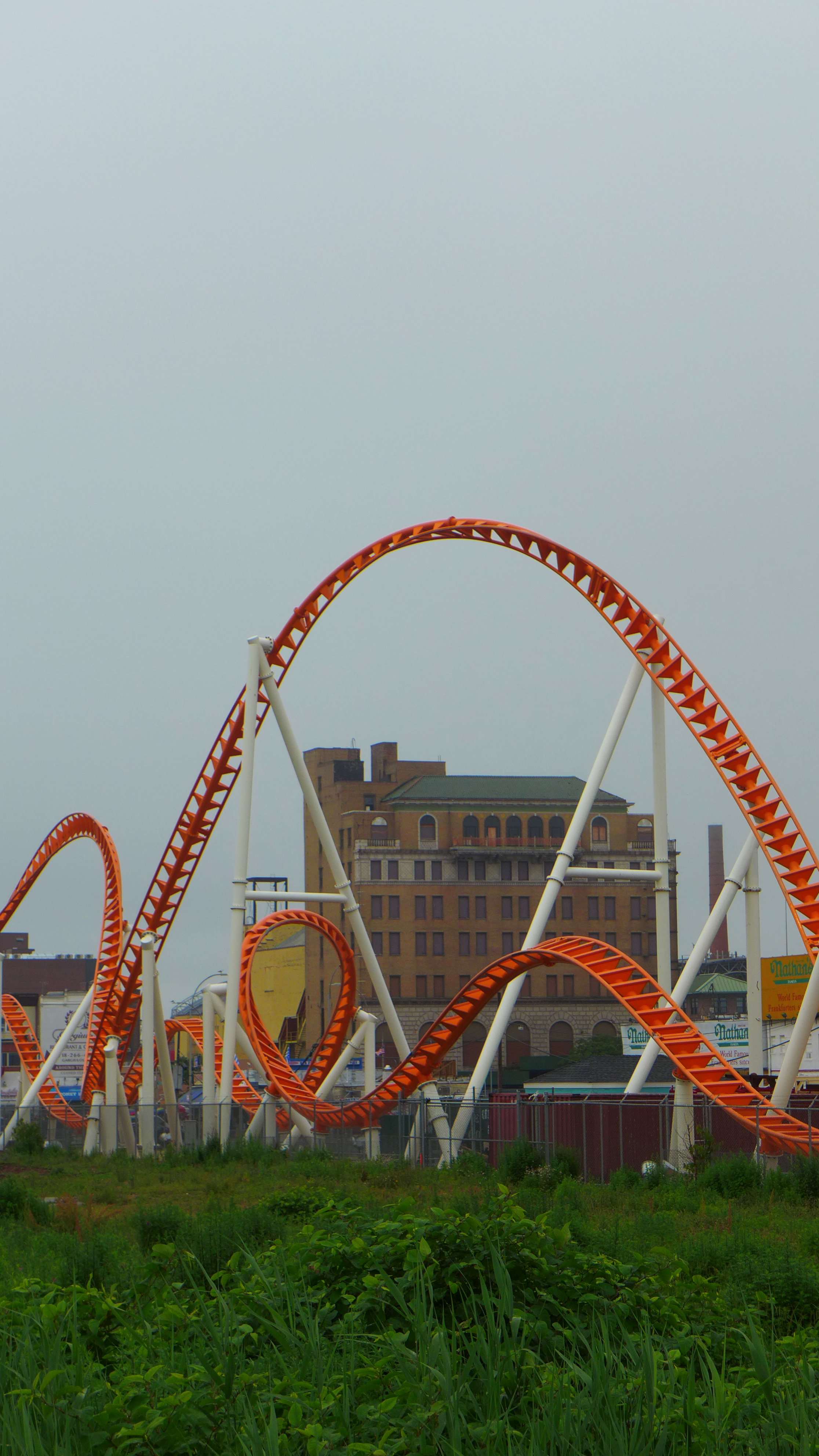 The old Coney Island theater in the background, the Thunderbolt ride in the foreground.